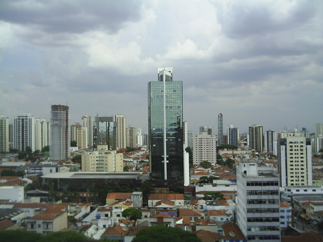 District of Tatuapé, Zone East of São Paulo City.